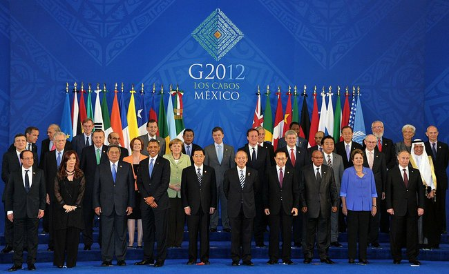 The participants of G20 meeting at Los Cabos, Mexico Summit